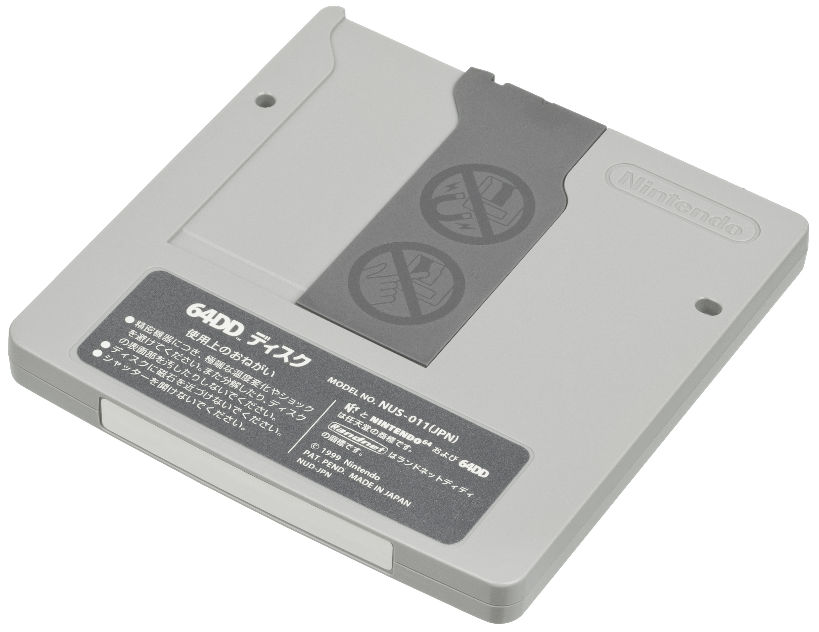 The back of a 64DD magneto-optical disc, used with the 64DD add-on drive for the Nintendo 64 video game console.